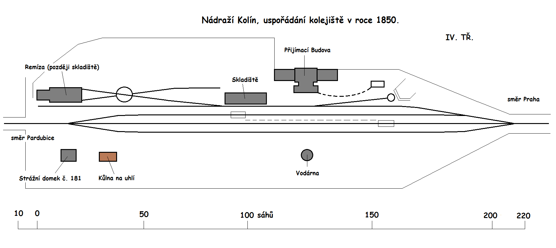 The nonexistent railway station in Kolín. Built in 1850. Was found at the same place, what the present station Kolín.